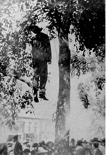 Lynching of Jay Lynch was the last man hung in Lamar for the killing of Sheriff John Harlow and Dick Harlow